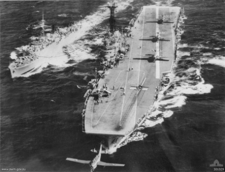 Australian War Memorial catalogue number 301029. AERIAL VIEW OF THE AIRCRAFT CARRIER HMAS MELBOURNE (II) REFUELLING THE TYPE 14 ANTI SUBMARINE FRIGATE HMAS QUICKMATCH (F04) WHILE LAUNCHING A FAIREY GANNET ANTI SUBMARINE AIRCRAFT. NOTE HOW THE CARRIER'S CRANE IS USED TO SUSPEND THE REFUELLING HOSE. THREE MORE GANNETS AWAIT THEIR TURN ON THE CATAPULT AND A SEA VENOM FIGHTER IS SPOTTED FORWARD. (NAVAL HISTORICAL COLLECTION)